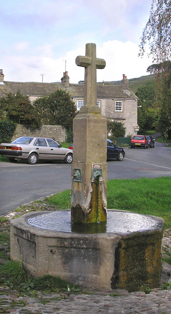 Langcliffe War Memorial The memorial takes the form of a drinking fountain on the village green. The notice warns "unsuitable for drinking".